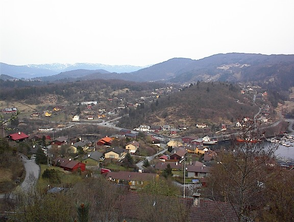 Picture of Valestrndsfossen outside Bergen, Norway